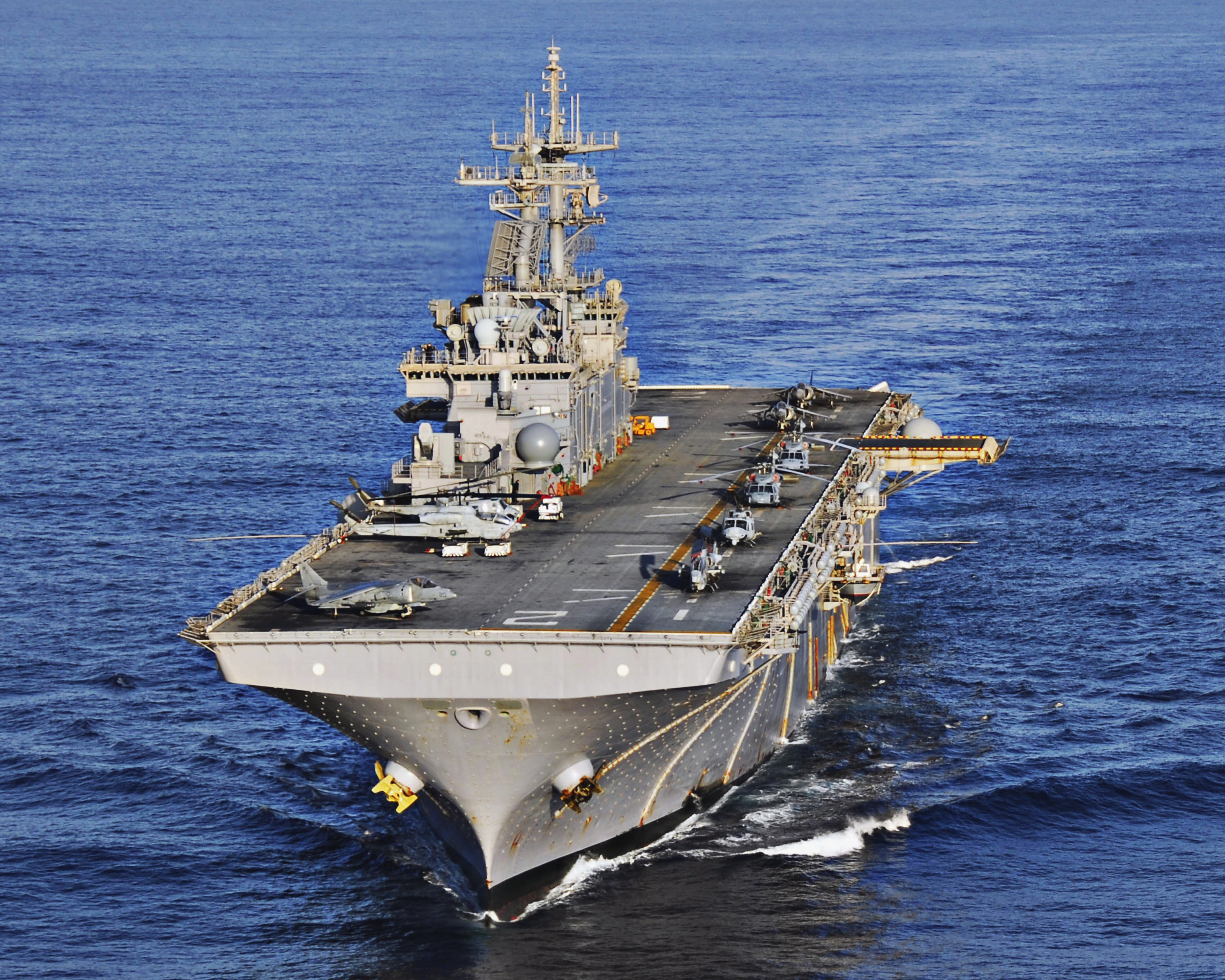 080316-N-5484G-010 EAST CHINA SEA (March 16, 2008) The amphibious assault ship USS Essex (LHD 2) steams into position during an Expeditionary Strike Force (ESF) exercise. The Nimitz Carrier Strike Group (CSG) recently participated in an ESF with the Essex (LHD 2) Expeditionary Strike Group (ESG). The ESF exercise was designed to test the ability of the Strike Groups to plan and conduct multi-task force operations across a broad spectrum of naval disciplines and to refresh skills in completing complex missions that require capabilities that are broader in scope than the individual Strike Groups can provide alone. U.S. Navy photo by Mass Communication Specialist 3rd Class Joseph Pol Sebastian Gocong (Released)